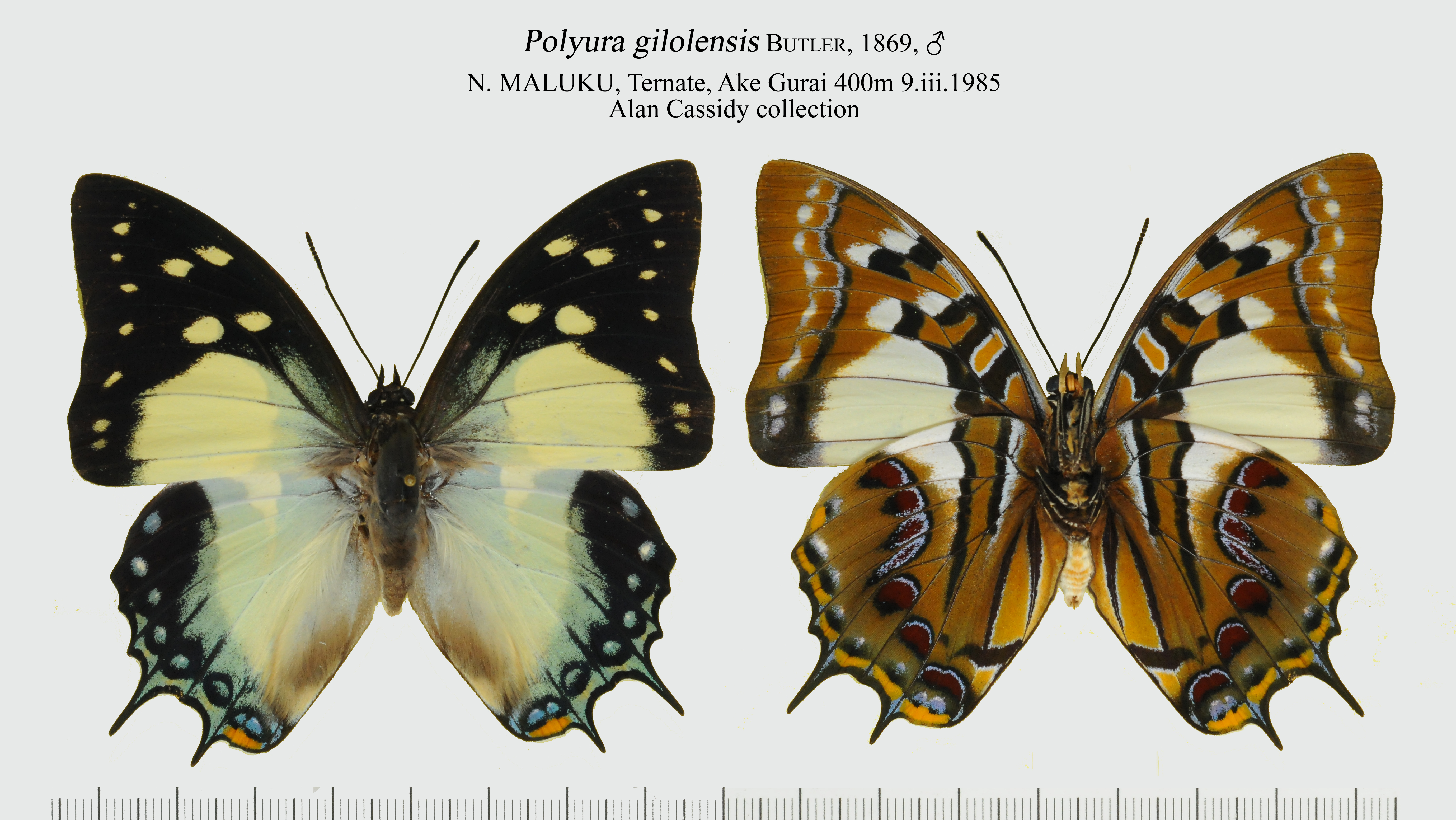 Polyura gilolensis, male, N. Maluku, Ternate, Project Wallace material, Alan Cassidy photo.